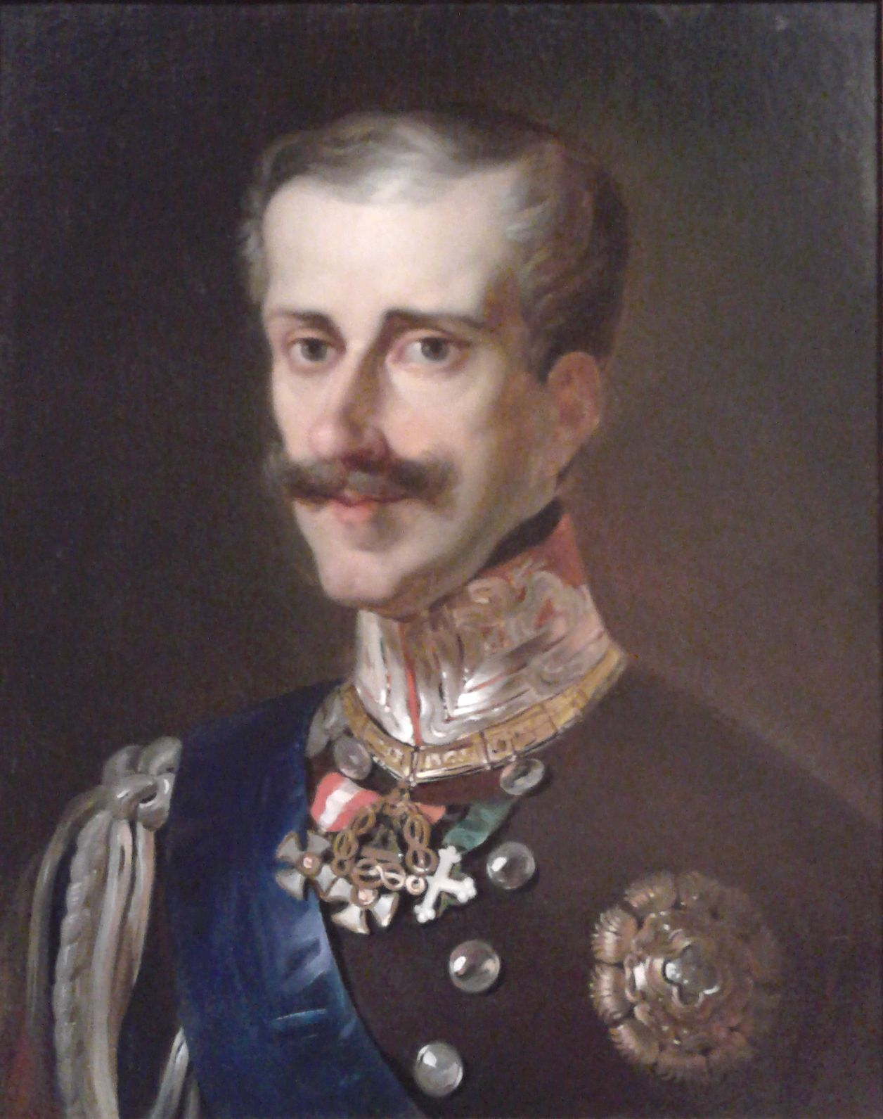 Portrait of Charles Albert of Sardinia (1798-1849)